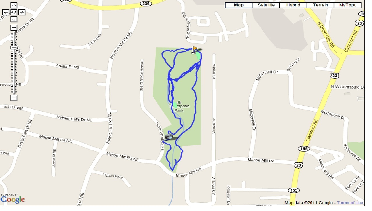 Rough trail map of WD Thomson park in DeKalb County Georgia, created with GPS mapping application on Blackberry Torch 9800. Note that one trail may appear as several trails close together due to GPS position tracking.